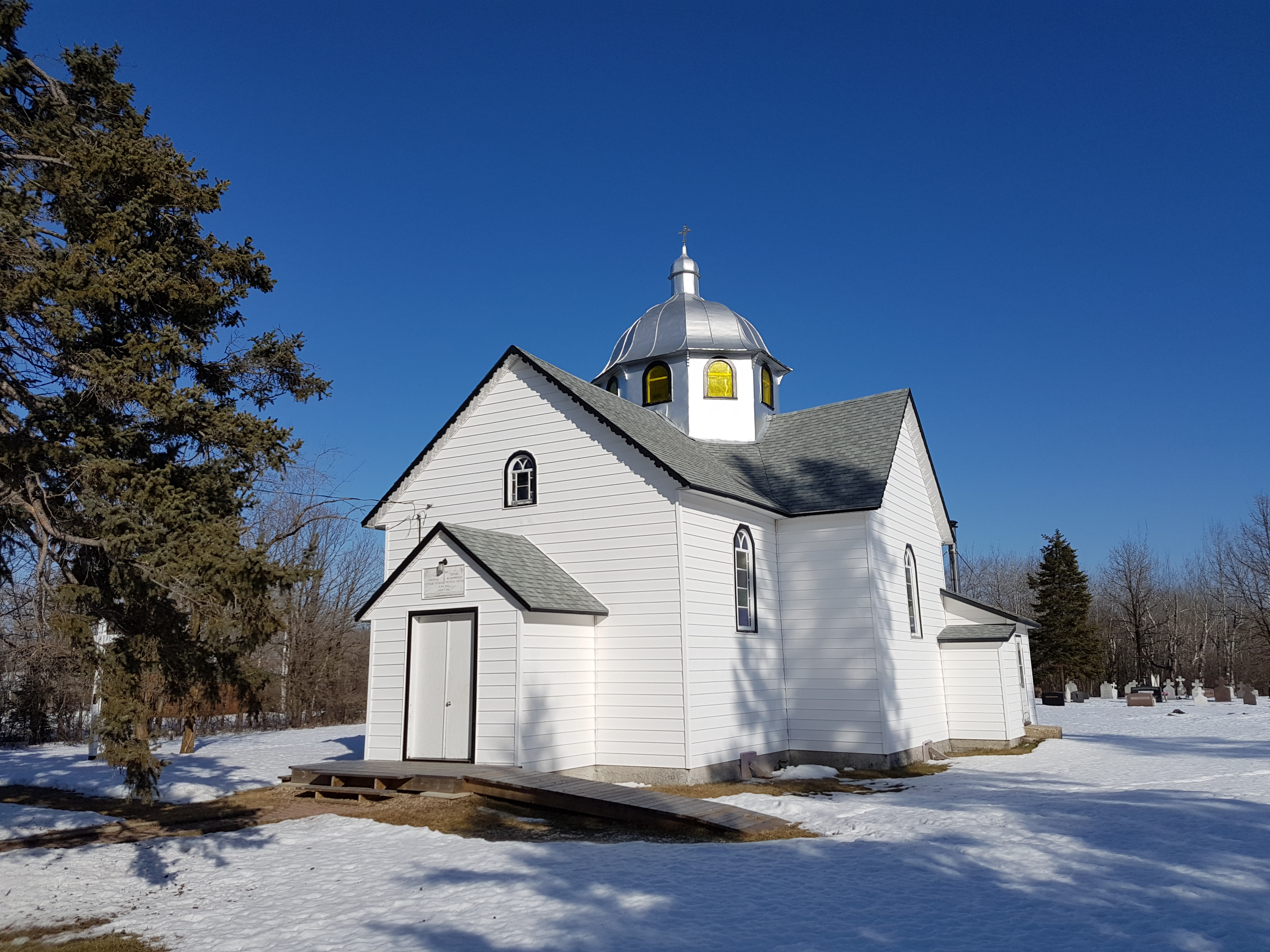 Holy Ghost Ukrainian Church in Elma, Manitoba. Located in the RM of Whitemouth, Manitoba.